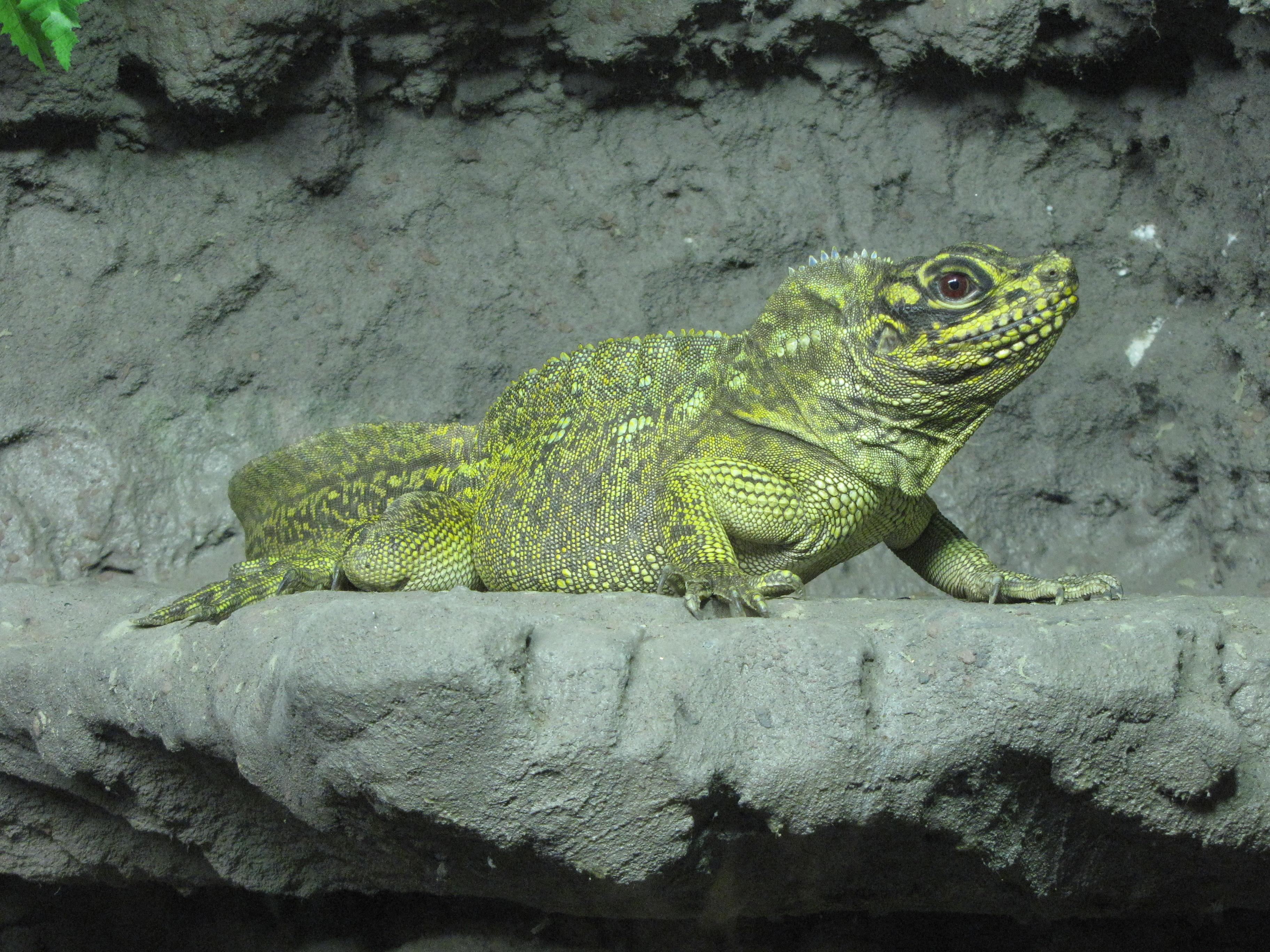 Sailfin lizard (Hydrosaurus pustulatus) in Helsinki Tropicario Zoo.